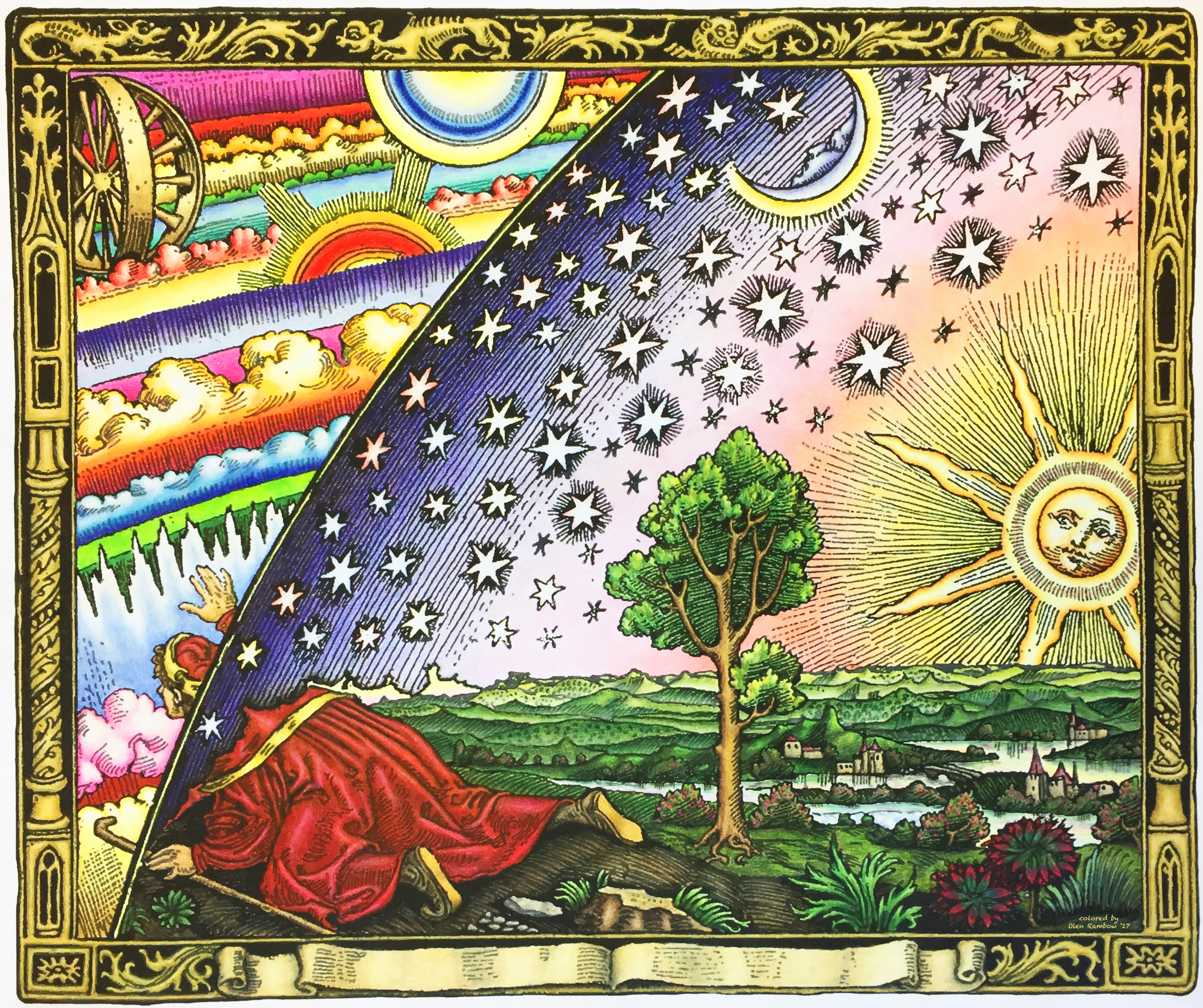 A version of the engraving completed with colored pencil.